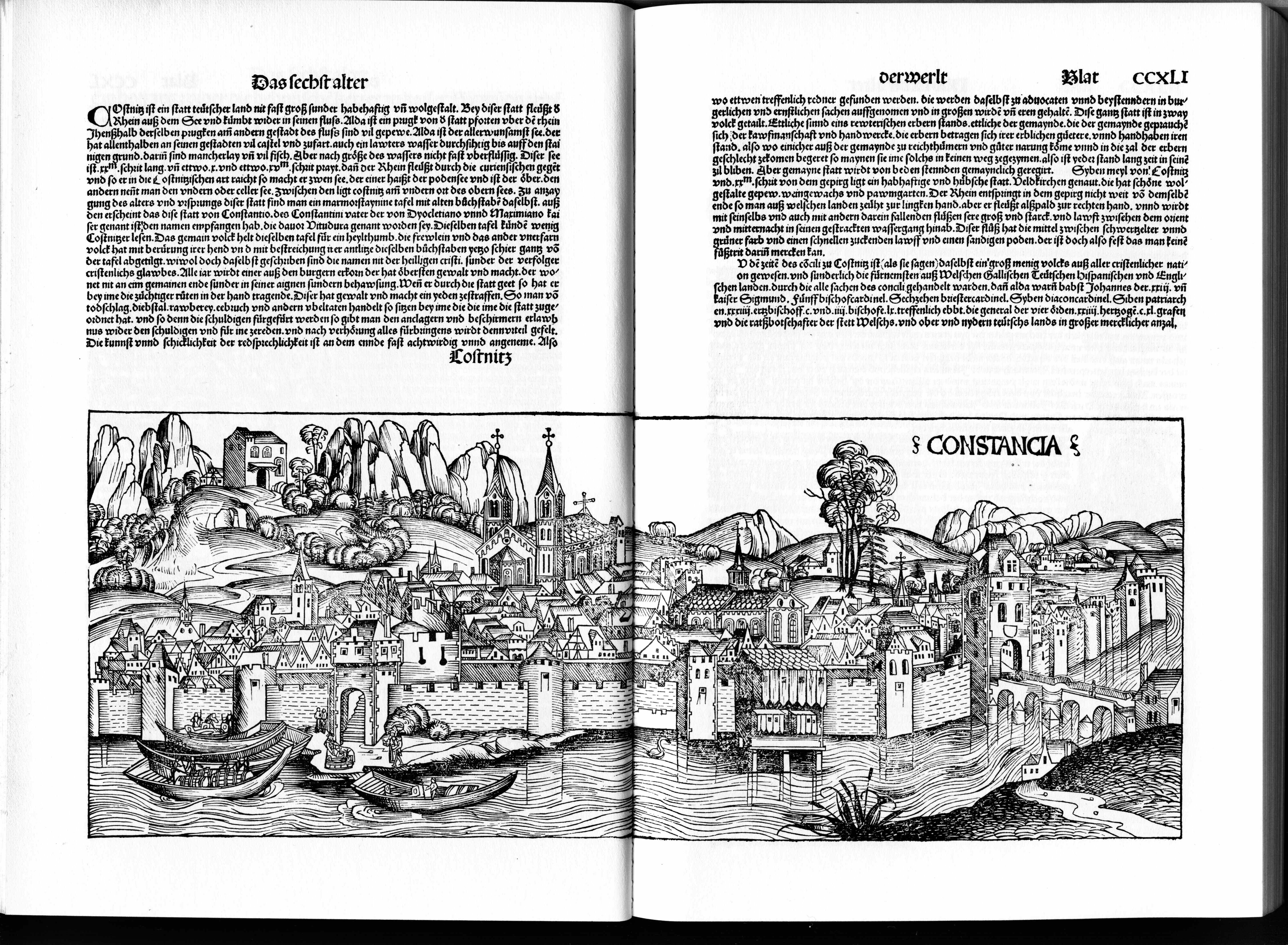 This is a scan of the historical document